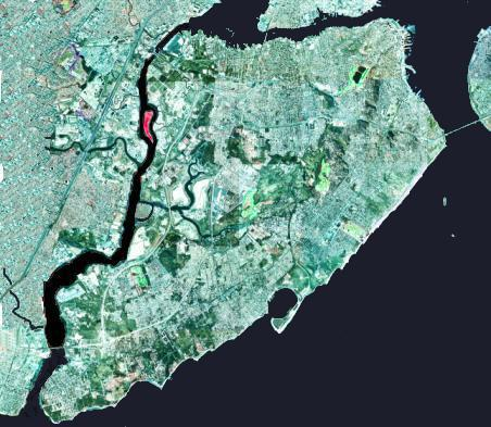 Prall's Island in Staten Island is shown in red, in the Arthur Kill. Based on public domain image courtesy of NYGIS. © 2004 Matthew Trump.